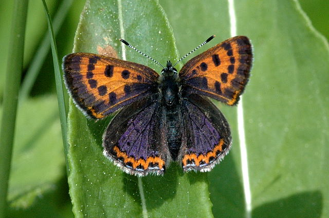 Picture taken in Commanster, Belgian High Ardennes . Species: Lycaena helle